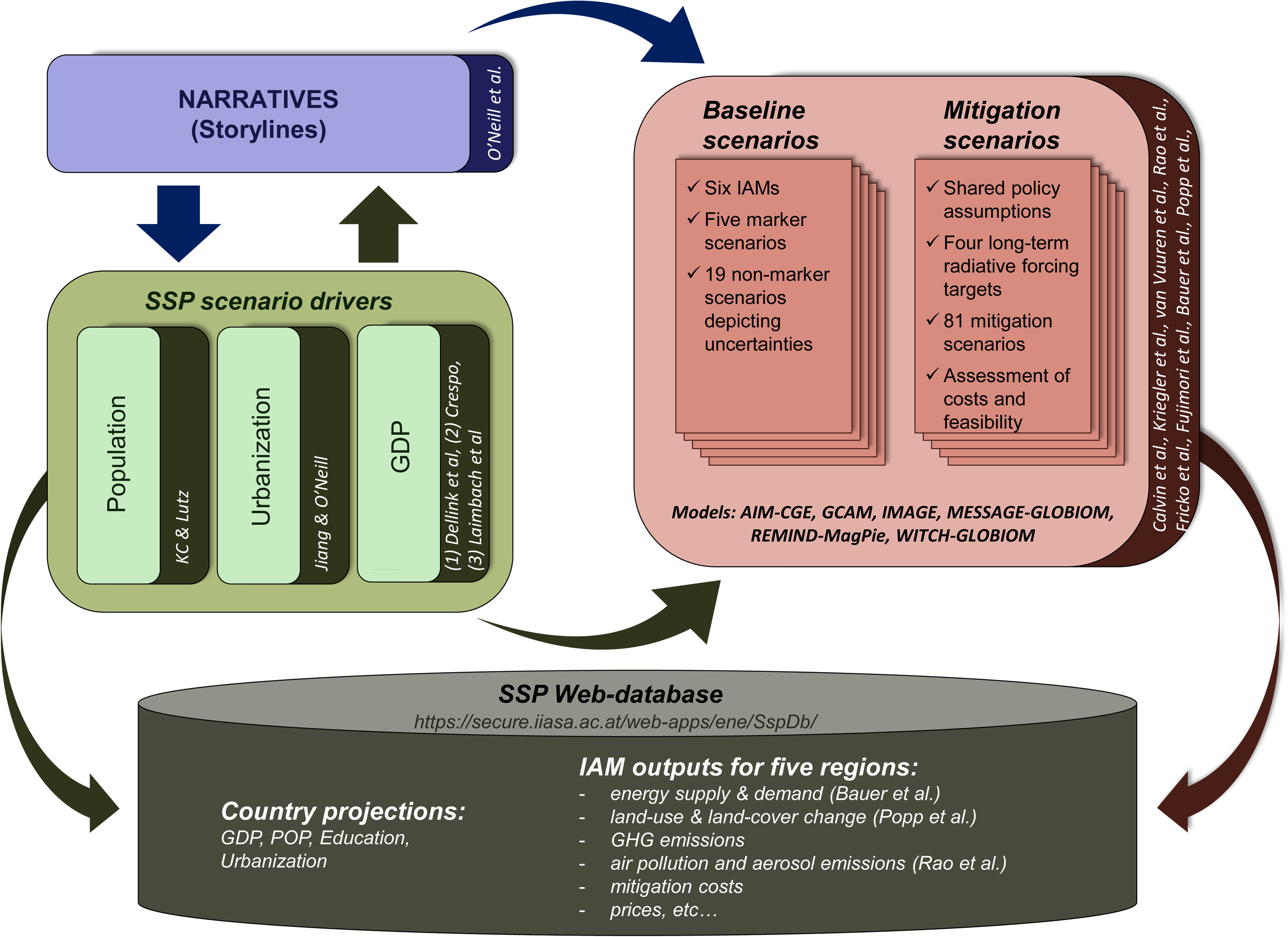 Schematic illustration of main steps in developing the SSPs, including the narratives, socioeconomic scenario drivers (basic SSP elements), and SSP baseline and mitigation scenarios. (Fig. 1 in article)